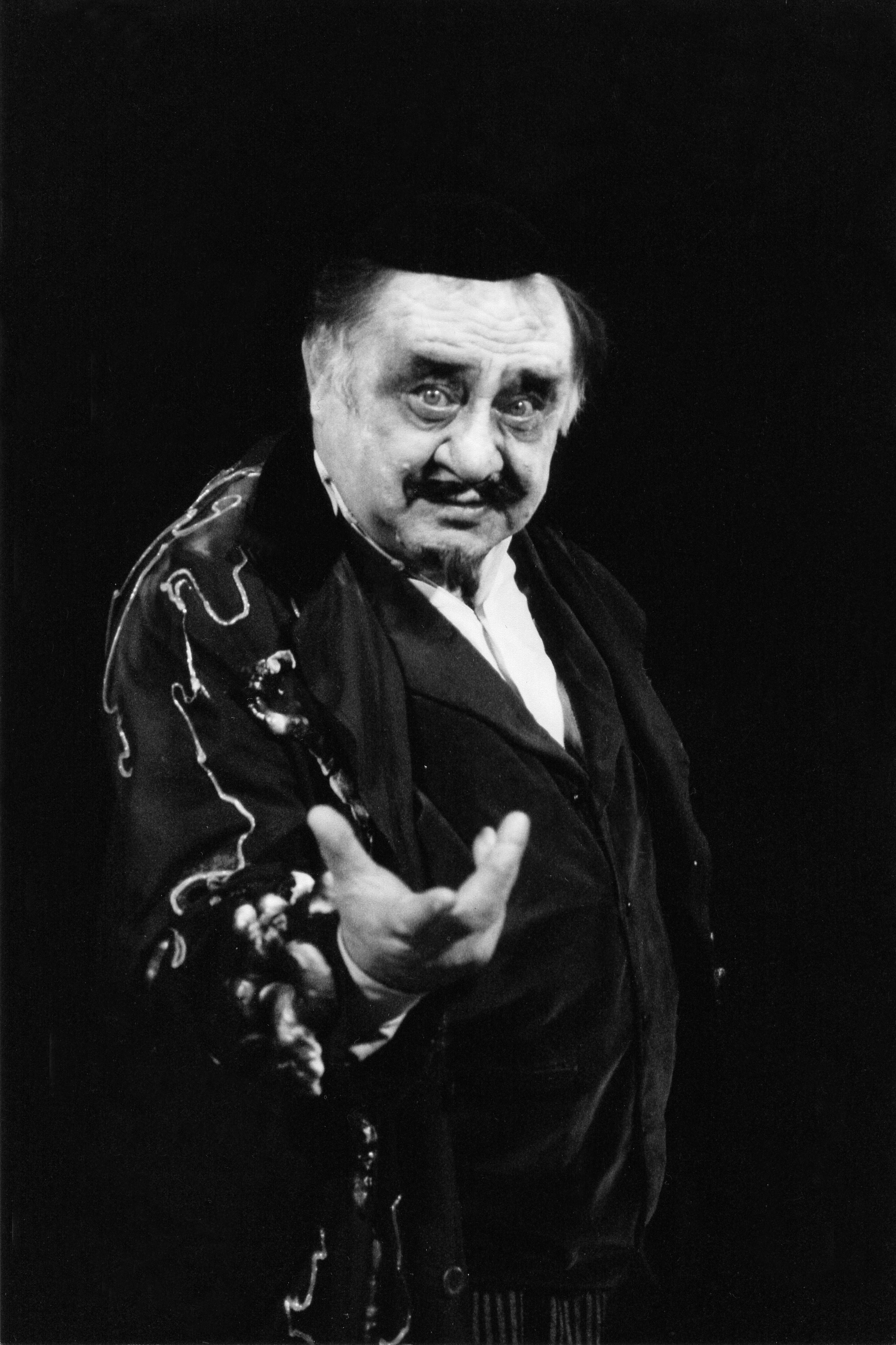 Tomislav Pejčić, "Kir Janja" by J. S. Popović, NT “Sterija“, Vršac, 2000. Srpski (latinica): Tomislav Pejčić, Kir Janja, J. S. Popović, NP “Sterija“,Vršac, 2000. Српски (ћирилица): Томислав Пејчић, "Кир Јања", Ј. С. Поповић, НП „Стерија”, Вршац, 2000.